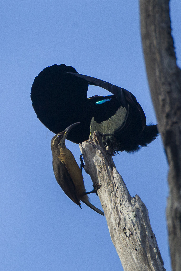 Victoria's Riflebird courtship - Lake Eacham - Queensland_S4E8793